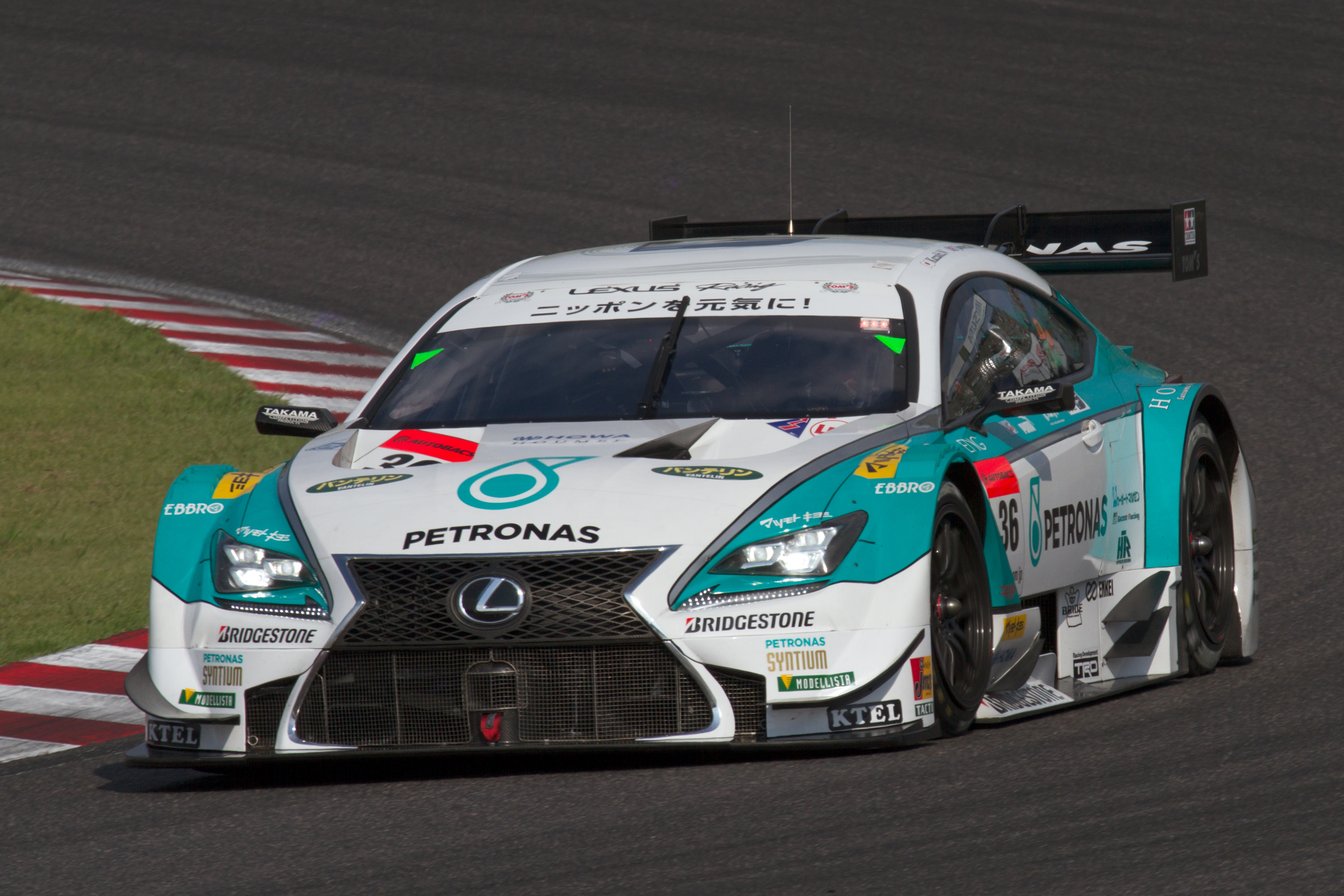 Super GT 2014 Rd.6 Suzuka 1000km: Kazuki Nakajima (TOM'S)